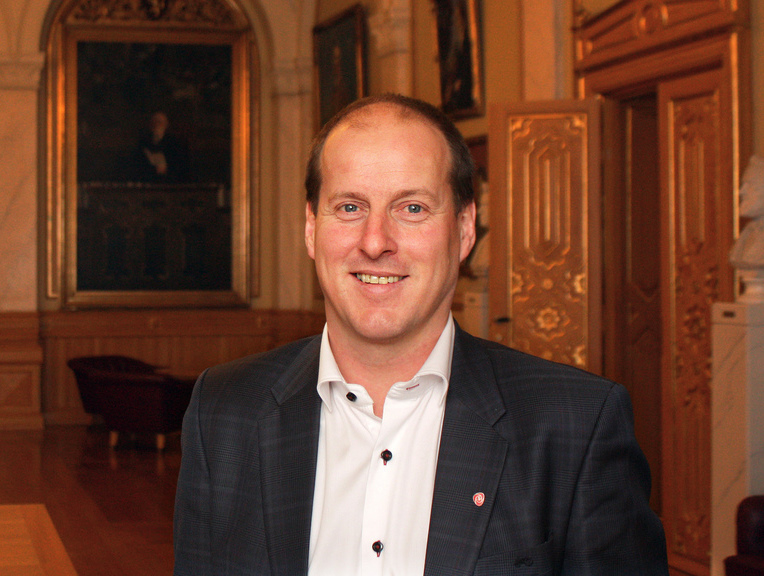 Thomas Breen